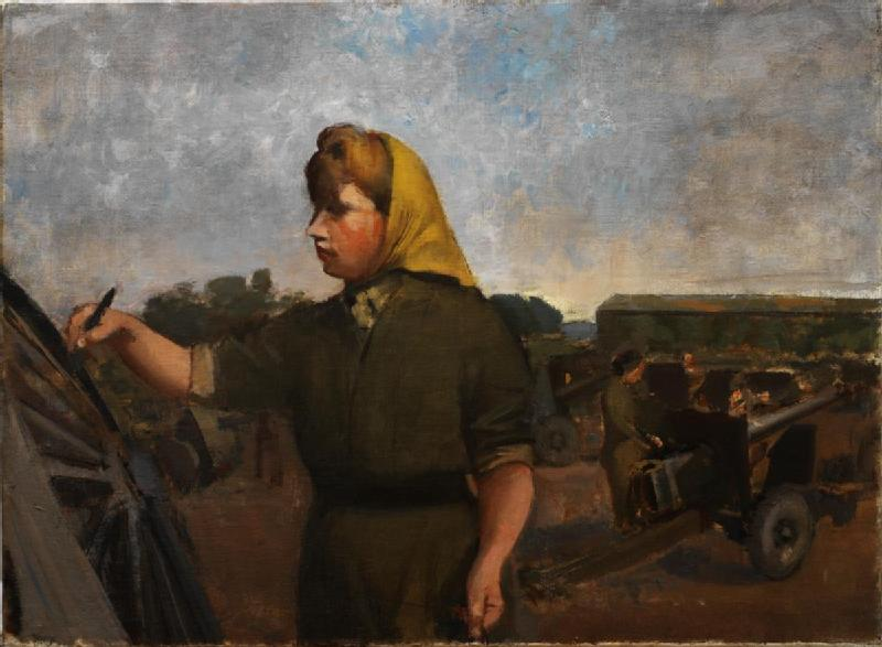 Ats at work image: An ATS girl in dungarees and headscarf painting a wheel. Another attends an artillery piece in the right background